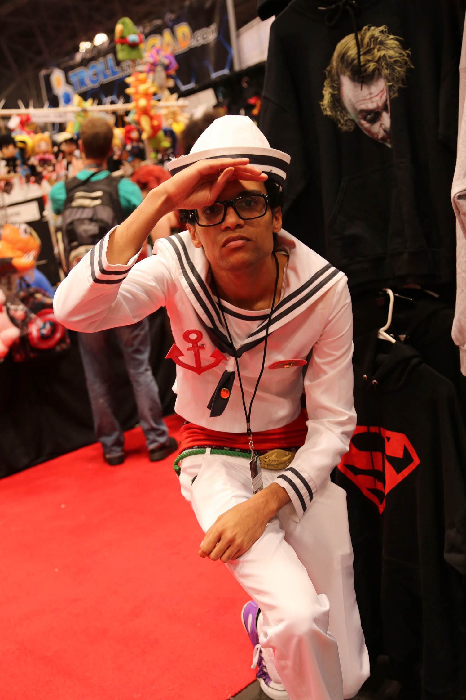 Cosplay at the 2014 New York Comic Con.